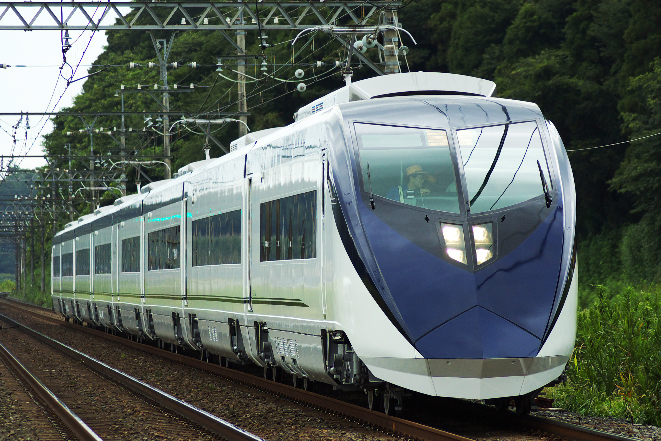 Keisei Electric Railway type "AE" EMU for "Skyliner" Narita airport access express train undergoing testing on the Keisei Mainline between Keisei-Sakura and Keisei-Usui